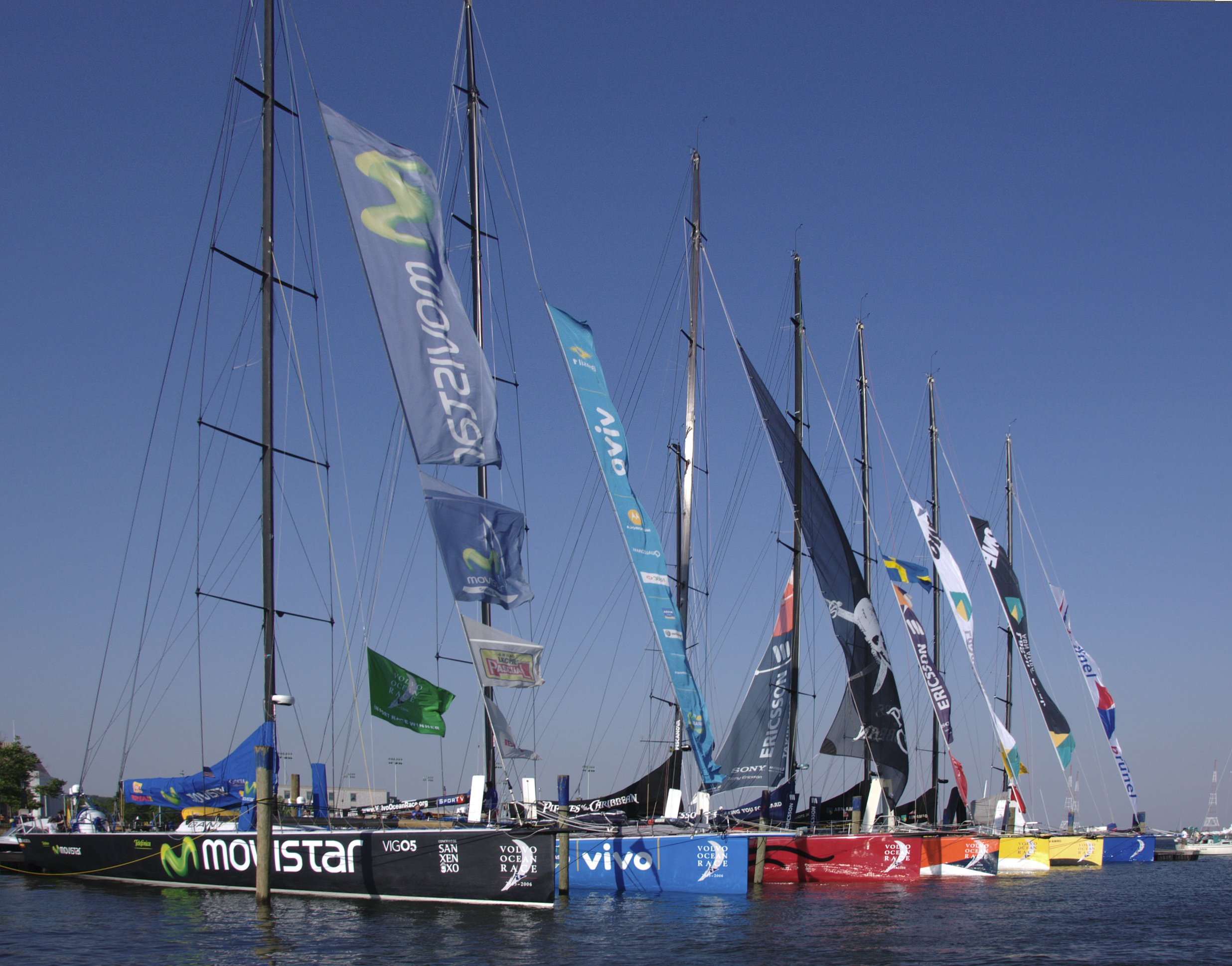 I, Michael Shields, am the creator of this image.